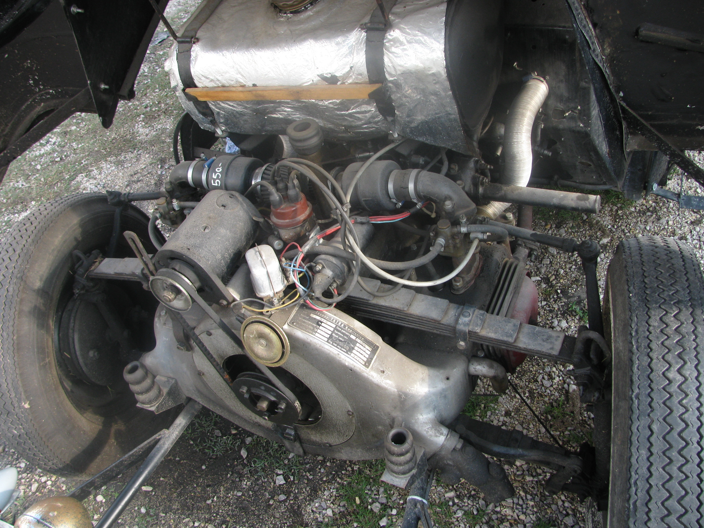 Air-cooled Flat-four engine of Tatra T57B '39 in Zamárdi, Hungary.